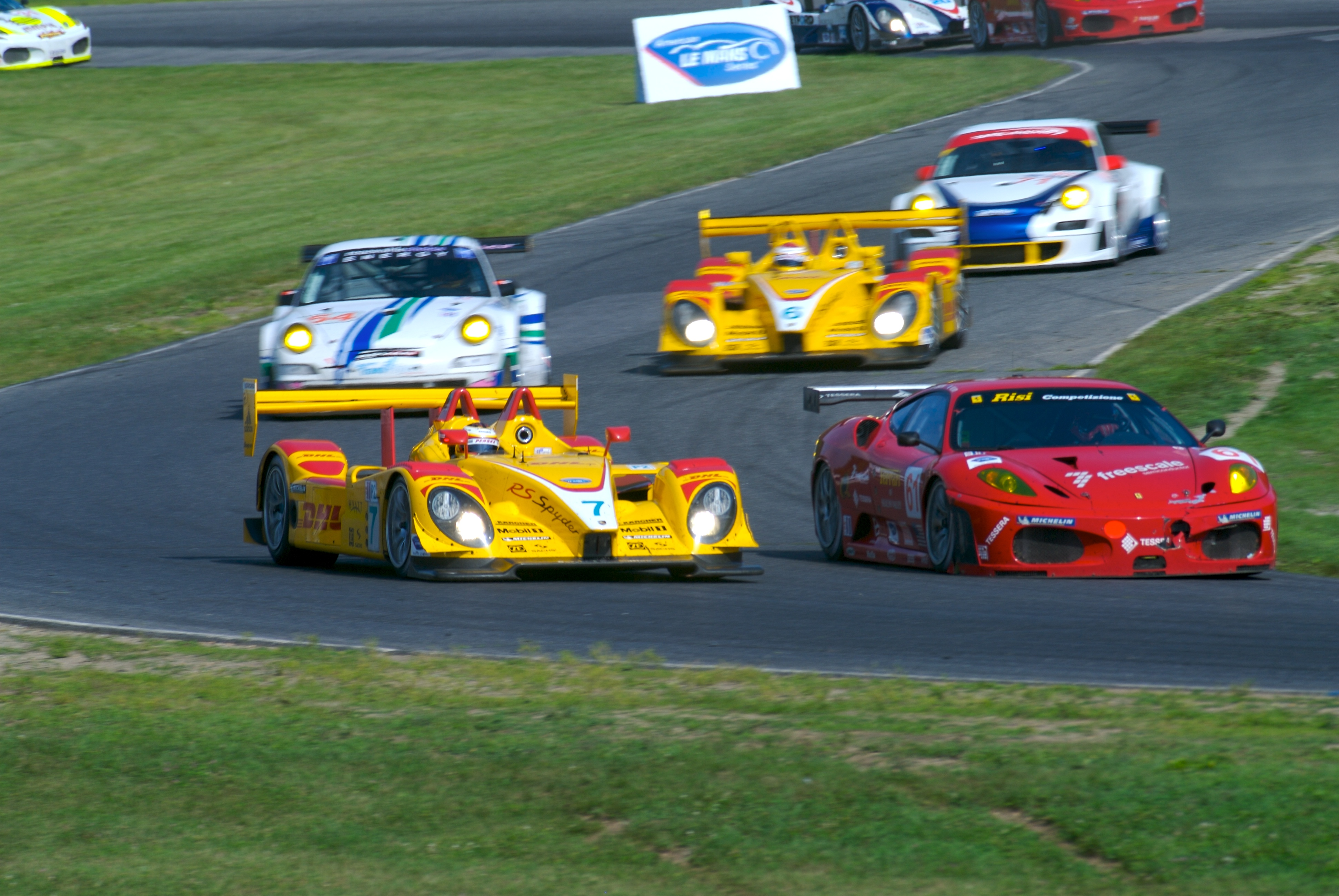 Porsche RS Spyder slips by the Ferrari F430 GT